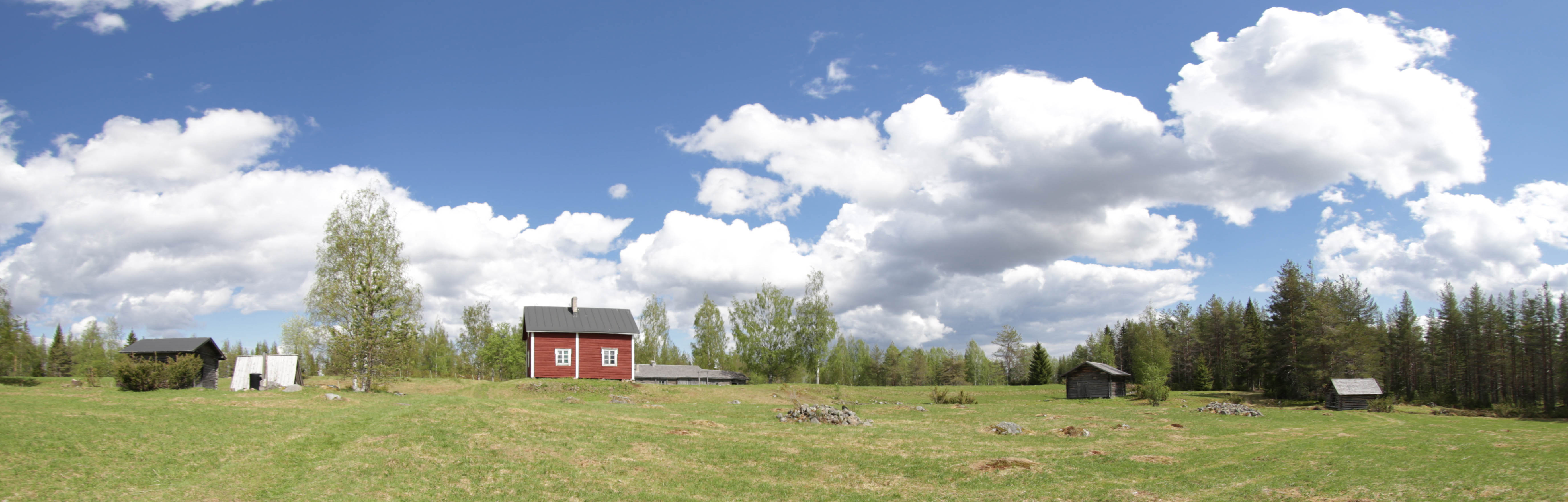 Main building and yard of Levävaara farm. Elimyssalo nature reserve, Kuhmo, Finland